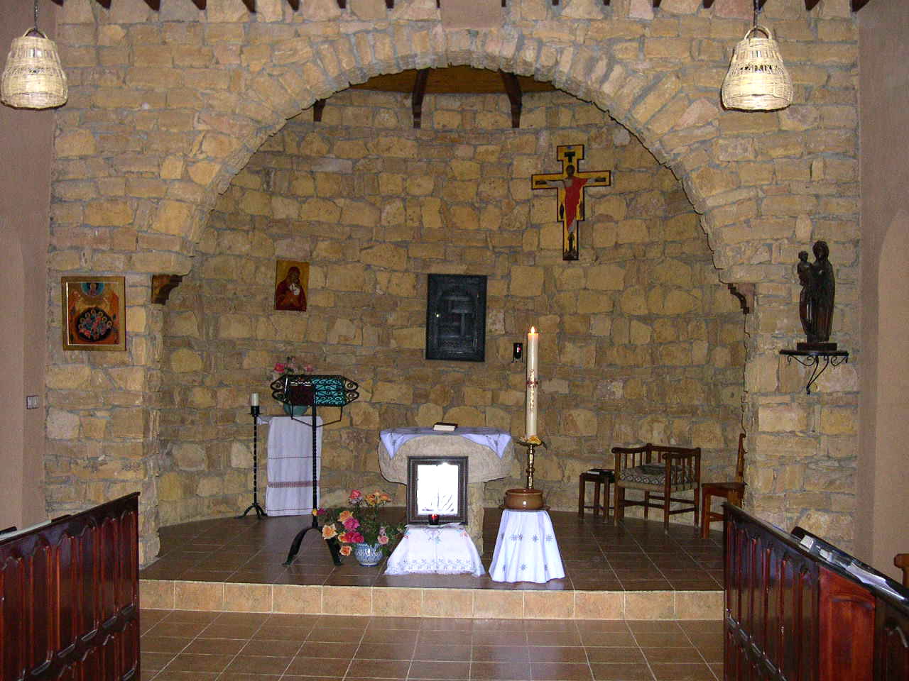 Chapel of the trappist monastery Notre-Dame de l'Atlas, Midelt, Morocco. The cross is coming from the monastery of Tibhirine in Algeria.